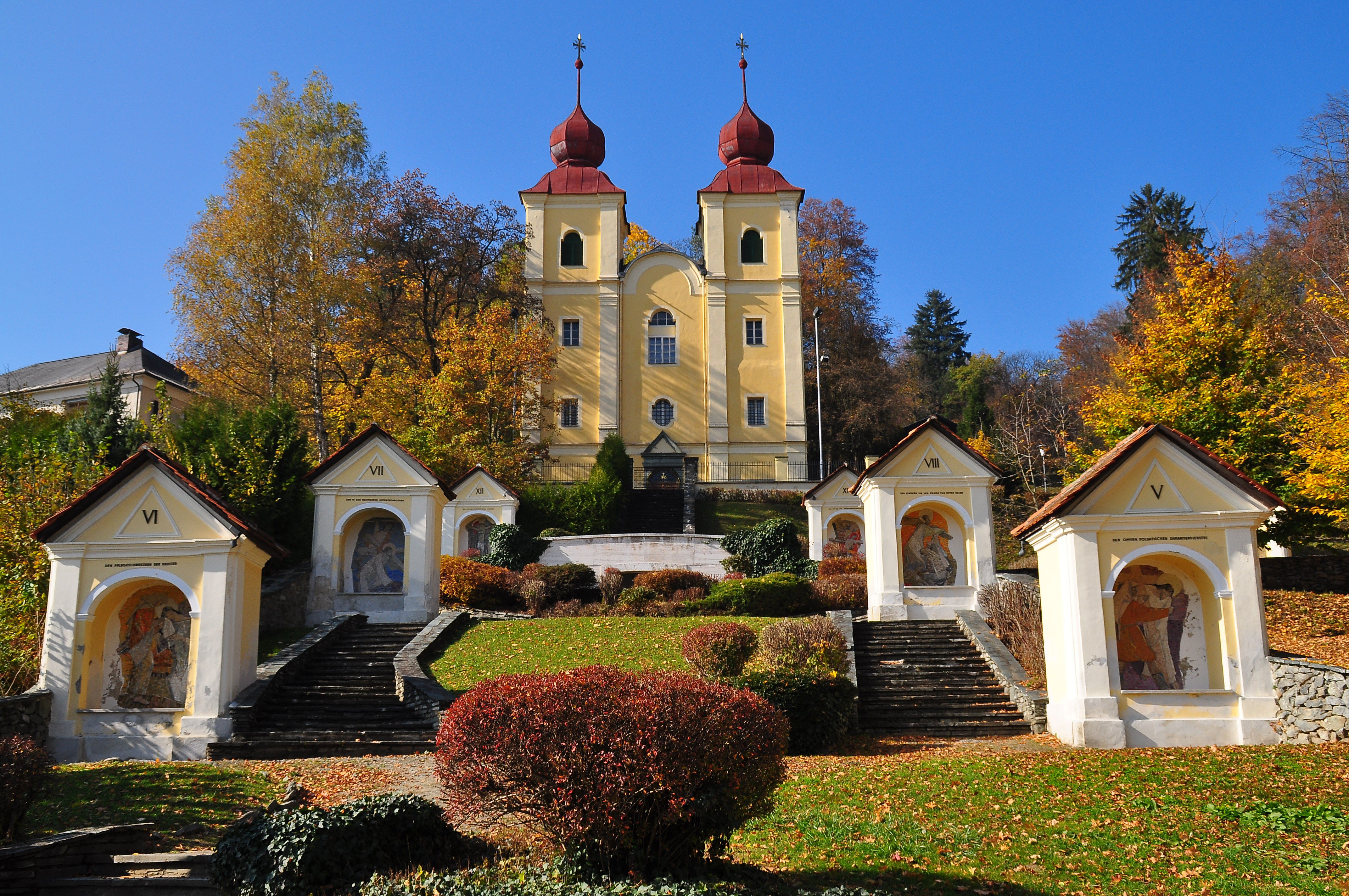 Memorial place of the state Carinthia with Calvary church on Kreuzbergl, 8th district "Villacher Vorstadt", municipality Klagenfurt on the Lake Woerth, Carinthia, Austria, EU